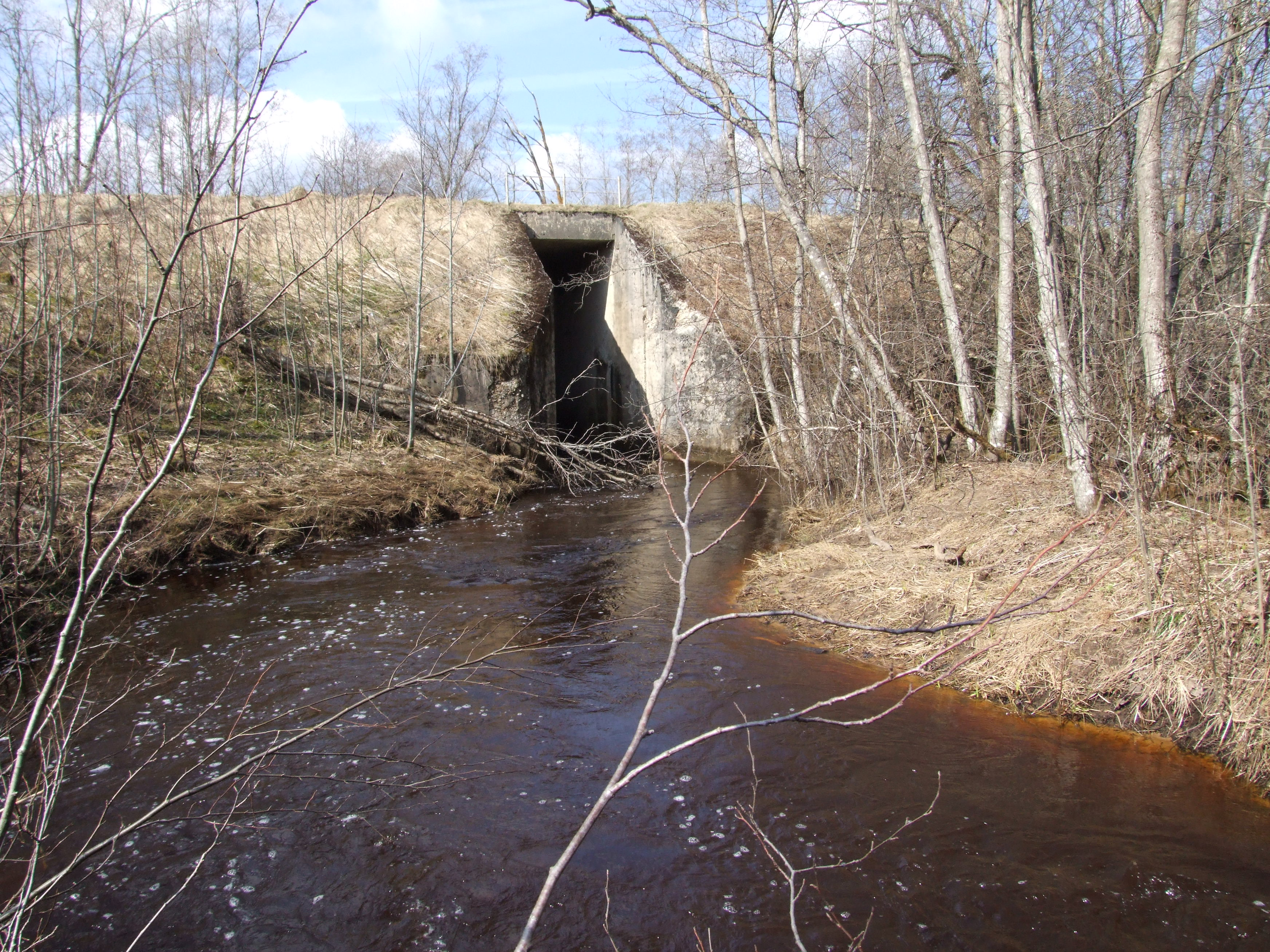 Vidusupe river near Ģibuļi-Līči road